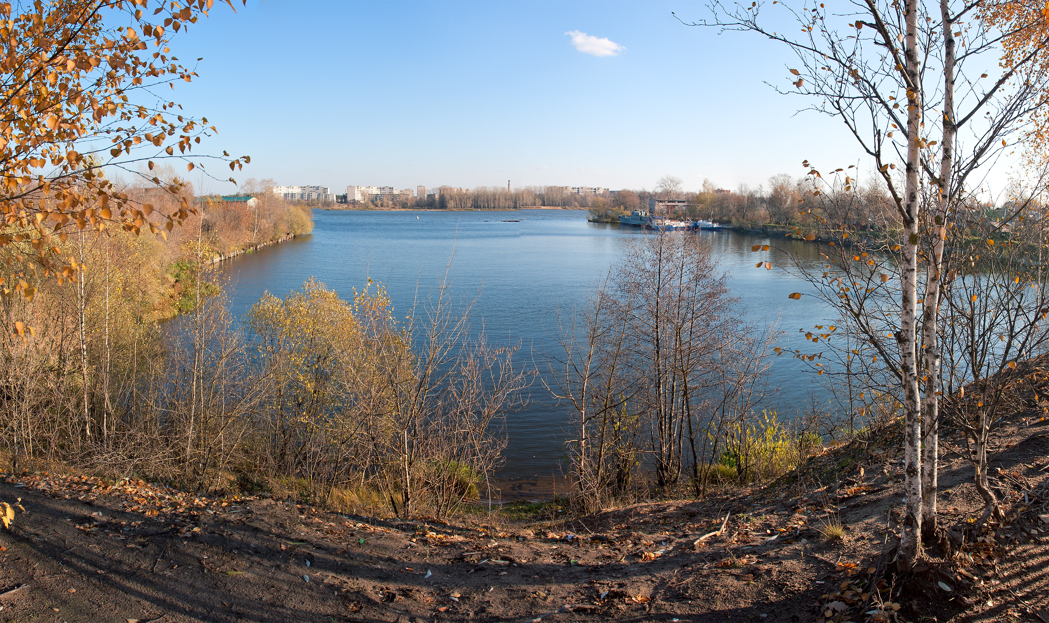 The River Kimrka / Kimry, Russia